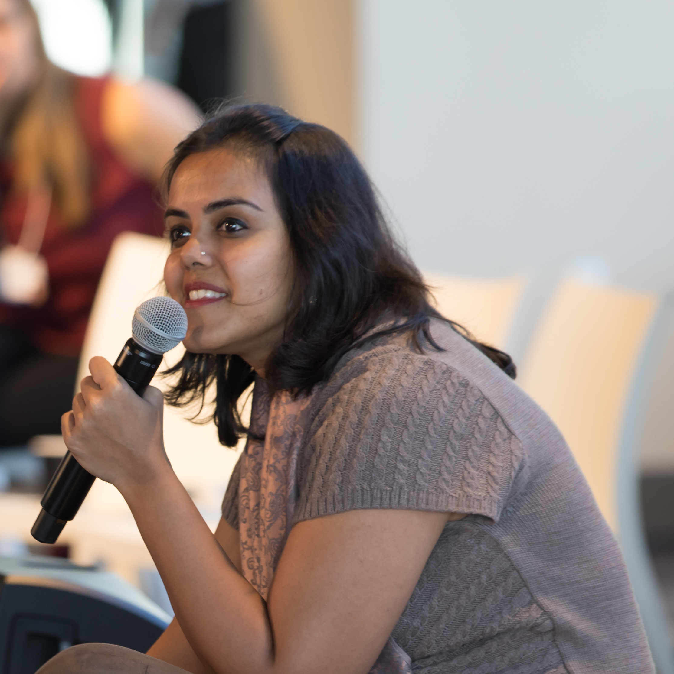 Neha Kirpal, Social and Cultural Entrepreneur, at the YGL Alumni Annual Summit 2018. Copyright World Economic Forum / Stephen Porter